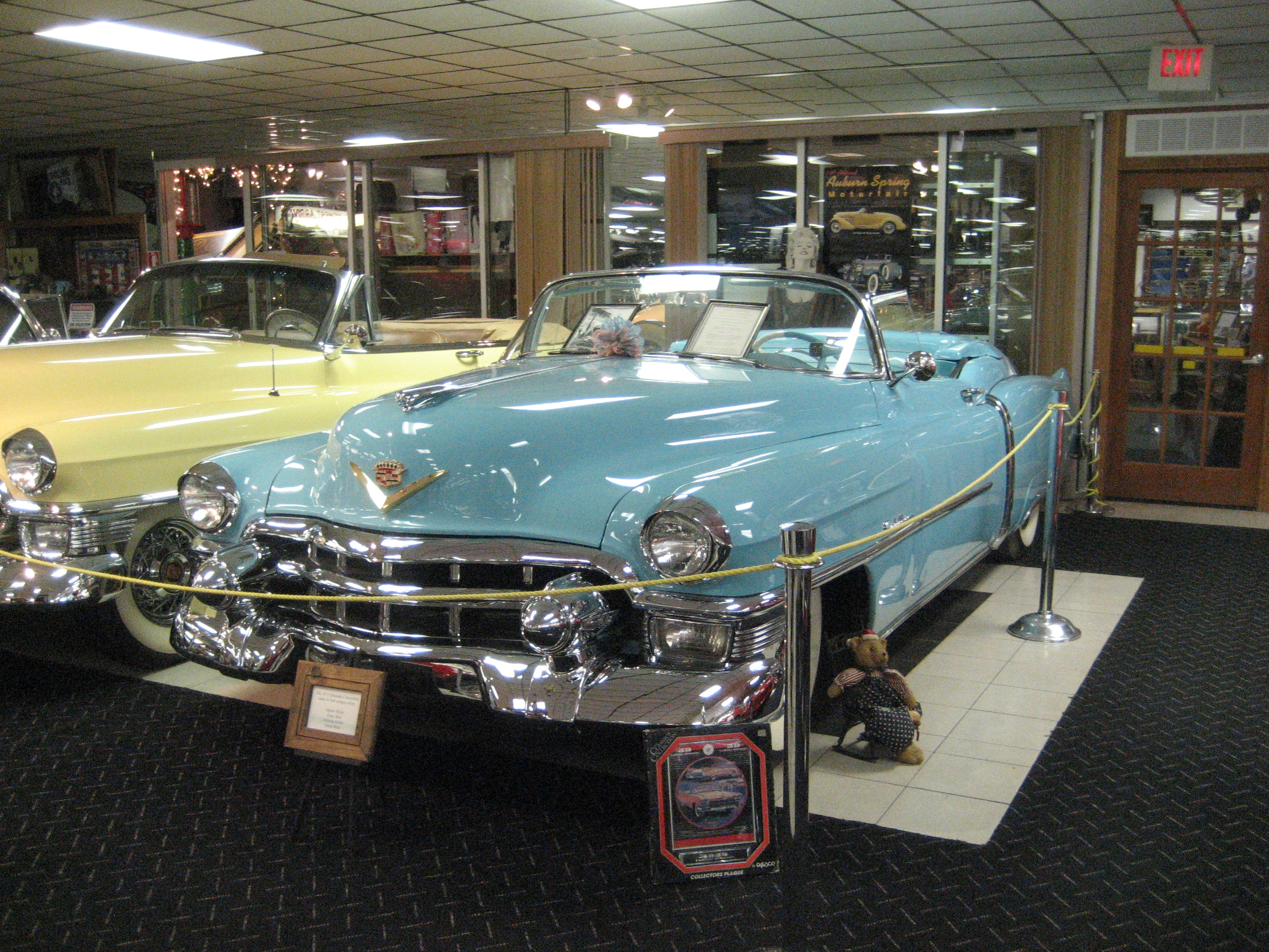 1953 Cadillac Eldorado Convertible on display at the Tallahassee Automobile Museum.